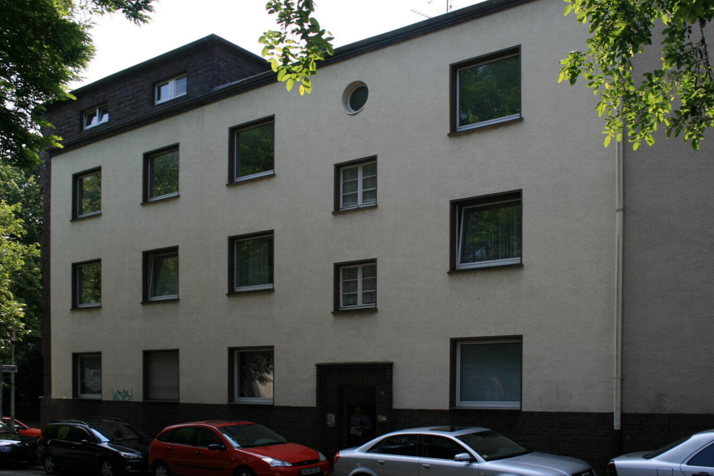 Cultural heritage monument No. B 124 in Mönchengladbach